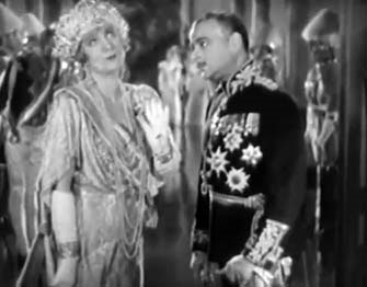 Nance O'Neil and Lowell Sherman in the 1931 American film The Royal Bed.